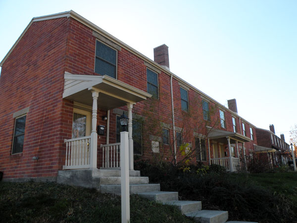 Picture of a view of Mooncrest, a community that was built during World War II as housing for defense workers, in Moon Township, Pennsylvania, on November 13, 2010. This picture was taken facing 149-153 Delaware Avenue. The first section of townhouses shown were built during World War II, and these were renovated in 2008.[1] The second section of townhouses in the distance with the darker hue were also built during World War II, but have not been renovated recently. Most of the townhouses in the community do not seem to have been renovated too much in recent years, but many are still in fairly good condition. The renovated section from 149 to 153 Delaware Avenue shows that modern updates and improvements can be done in a way that still retains the classic look of the community. A historical marker at Mooncrest Drive and Old Thorn Run Road says the following: "Mooncrest - Designed and built in 1943 by the federal government as defense worker housing. Mooncrest residents produced armor plate, munitions, and ships at the nearby Dravo Corporation during World War II. Operated by U.S. Air Force after 1945; homes sold to private investors in mid 1950s. Pennsylvania Historical and Museum Commission 2004".